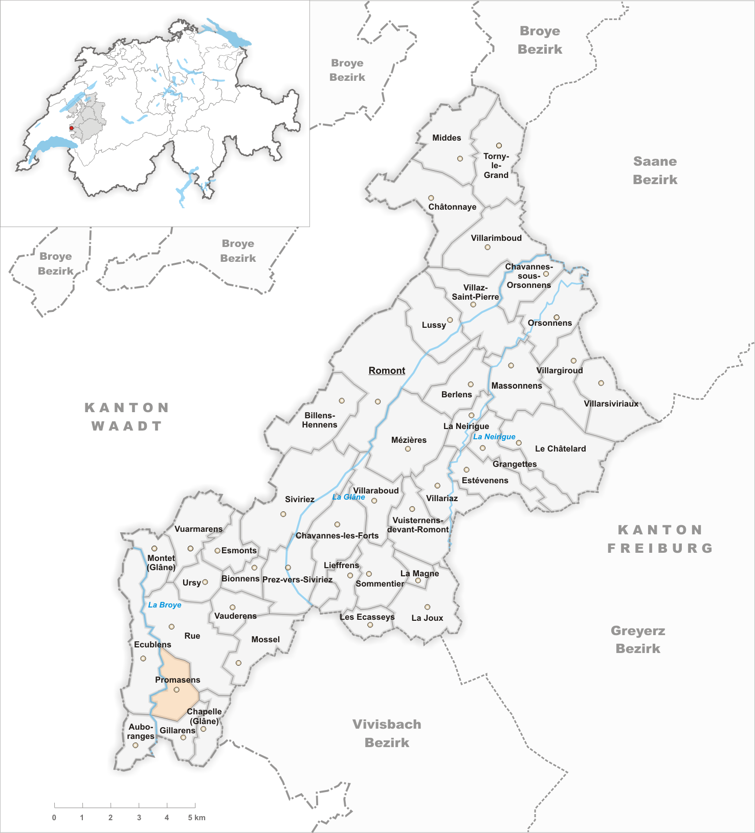 Municipality Promasens Artist: Tschubby